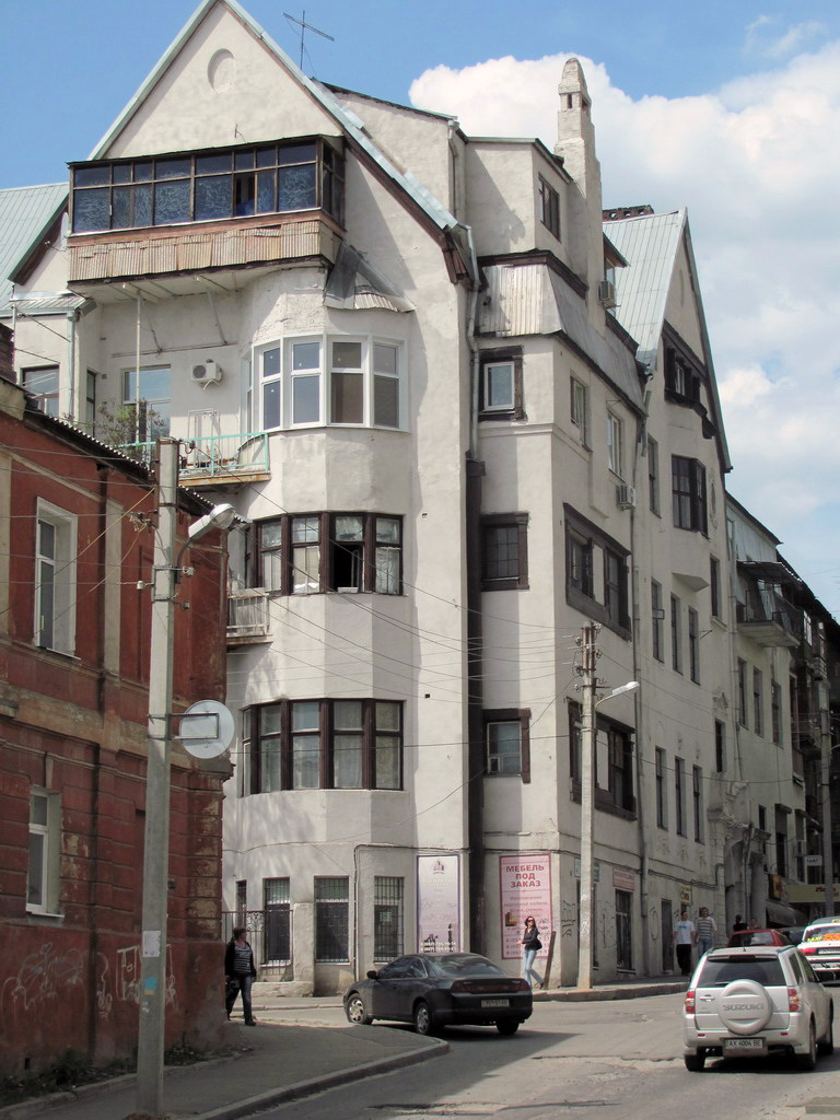 House of M.Helferich in Kharkov